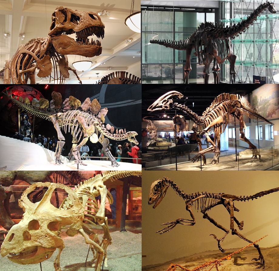 A collection of skeletons mounted in museums of various dinosaurs